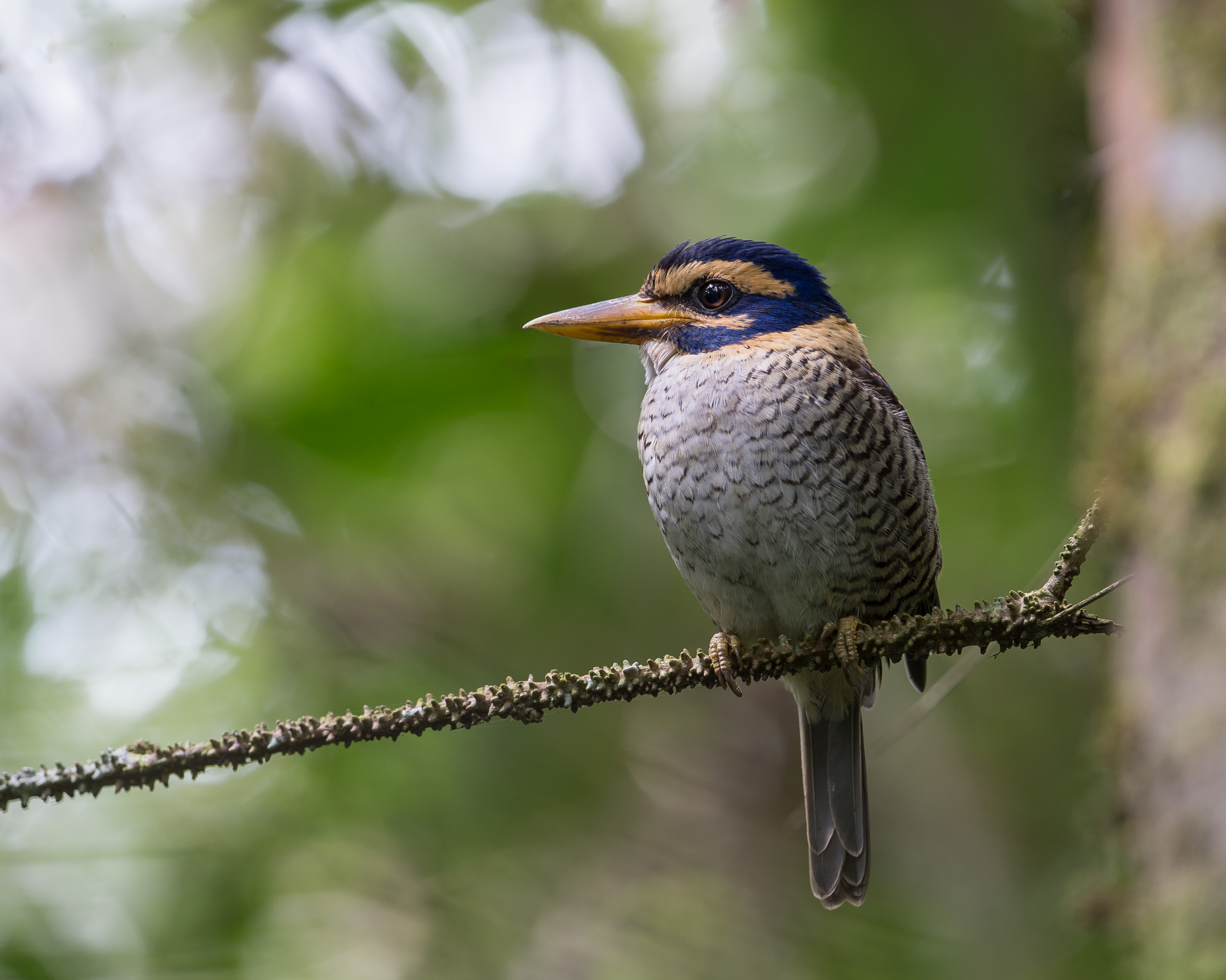 Scaly-breasted Kingfisher Actenoides princeps, Minahasa Mountain, North Sulawesi, Indonesia.